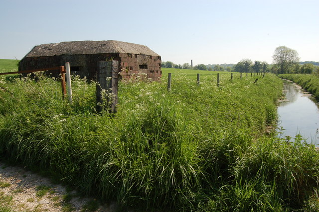 WW2 pillbox at Freewarren Bridge near Crofton This type FW3/22 pillbox stands close to Freewarren Bridge and to the north of a drainage ditch (seen here), the main railway line and the Kennet & Avon Canal. Originally, the pillbox was one of one hundred and seventy built hastily in 1940 to create 'GHQ stop-line Blue' running for 58 miles between Bradford-on-Avon and Tilehurst. The view looks eastwards and the chimney of Crofton pumping station can be seen in the background.